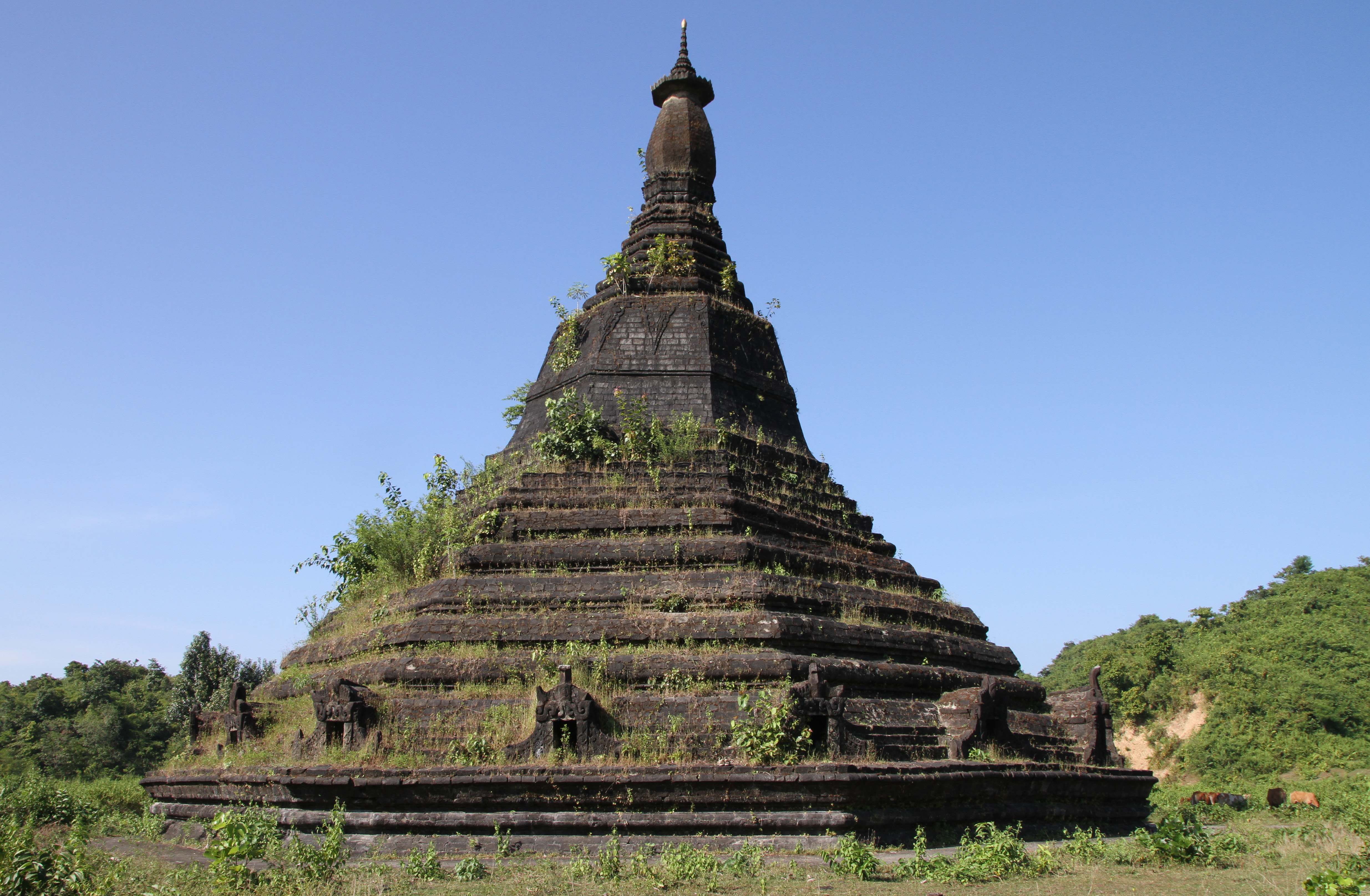 Laung Bwann Brauk pagoda in Mrauk U, Myanmar.